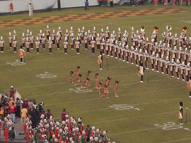 The PRIDE of Bethune-Cookman University Marching Wildcat's 14 Karat Gold Dancers 2006 - 2007 Season Dancers 1.Valencia Joseph (Captain) 2.Jakia Hines (Co-Captain) 3.Ebony Harris 4.Britte Davis 5.Jessica Victor 6.Candice Joyner 7.Jasmine Cooper 8.Libria Charles 9.Wilda Joseph 10.Jazelle Fields